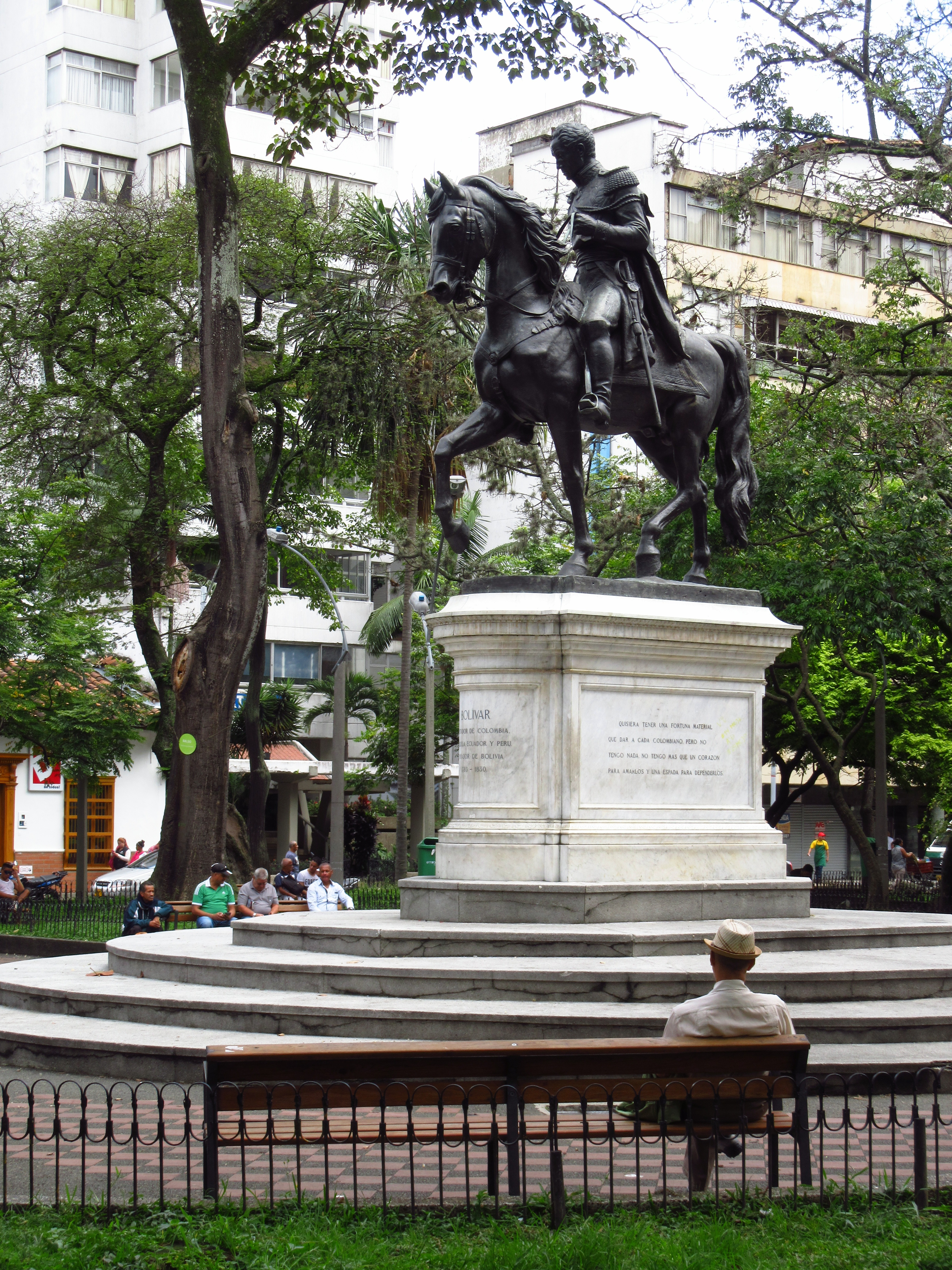 Medellín